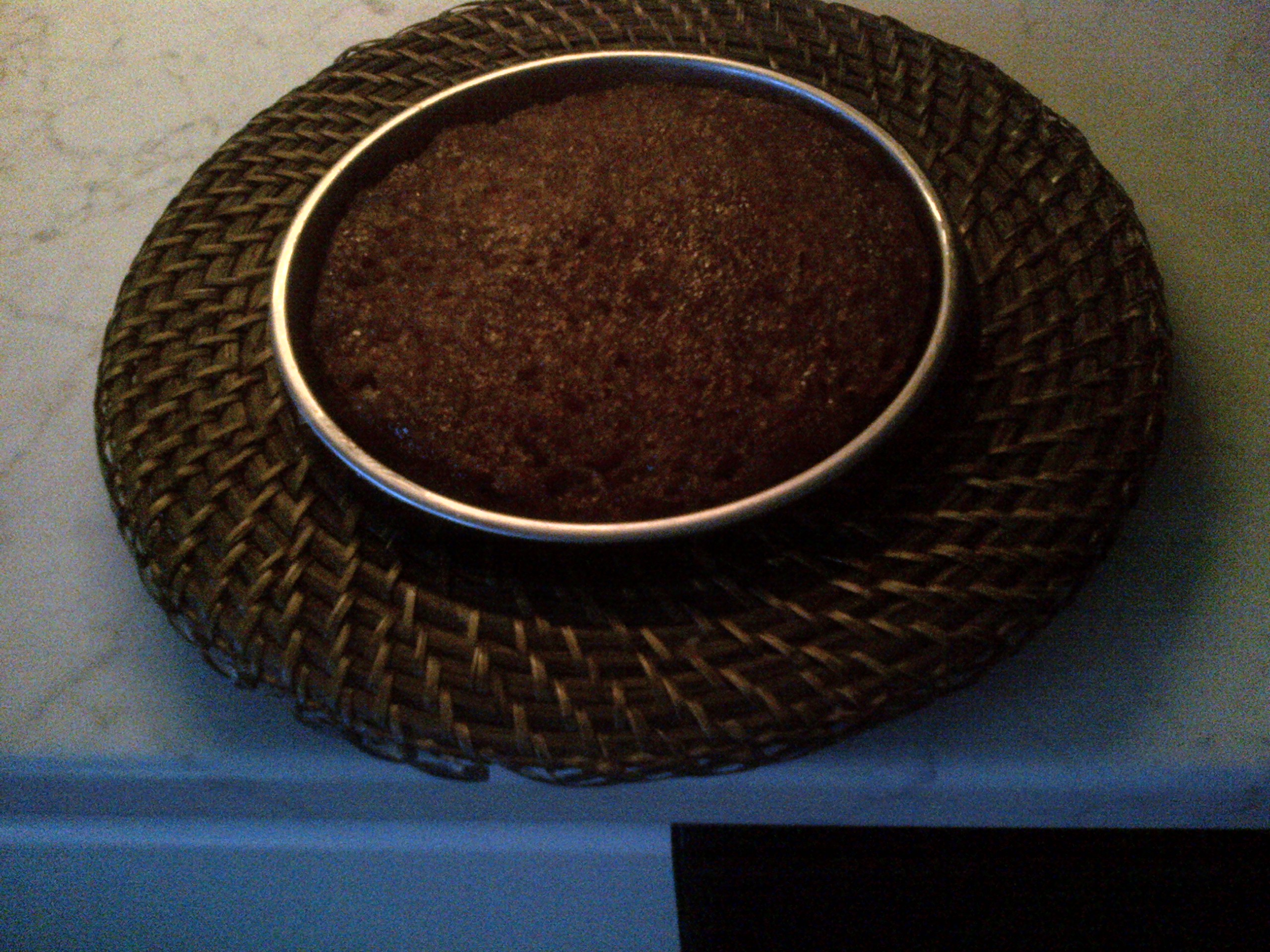 Ekmek kadayıfı recién hecho, esperando ser partido en porciones y servido con "kaymak", en Turquia.